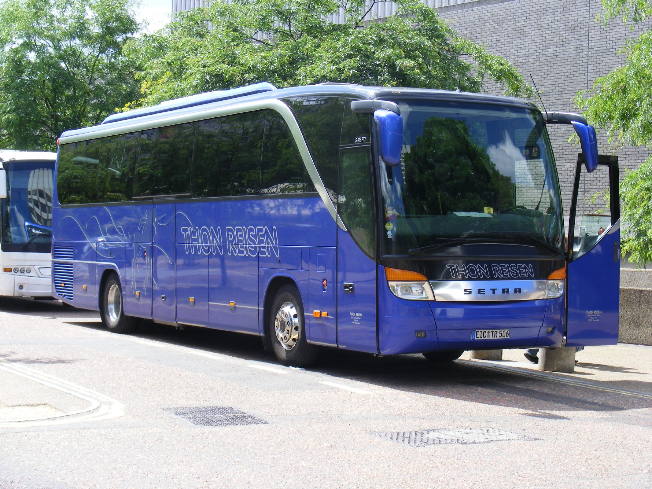 Who put the Zebra in Kreuzebra? A black and white safari striped livery would be nice. Yet another smart Eichsfeld registered (former DDR, close to Hessen) coach reaches London, this time a smart blue Setra of Thon Reisen...."Ihr Urlaub wird nicht monoton, wenn Sie fahren mit Firma Thon" - Your journey won't be monotonous if you travel with Thon's Click on the Ueber uns menu to find the history of the firm. Founded in 1949 (the year the GDR came into beine) by Fritz Wendehorst of Breitenbach , who carried on the business until 1988 through the difficult times of the DDR. In that year, the business was taken over by Hubert Thon, with two operational Ikarus buses and a spare. These Ikaruses were replaced by more modern variants Following the sudden death of the owner in the very early 90s, his wife Elisabeth took over the firm, having been a Kindergarten teacher. In 1990 a Mercedes o303 Coach arrived, followed by further neoplan buses. In 1994, a depot was constructed, and now eleven vehicles are operated - including three touring coaches for inland and foreign tours and five service buses operating within the VG Eichsfeld.